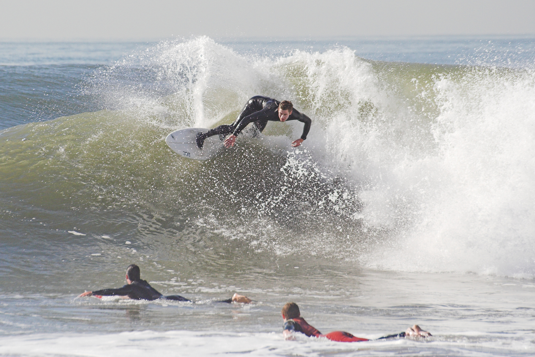 Surfers at Newport Beach during the December 2005 storm.